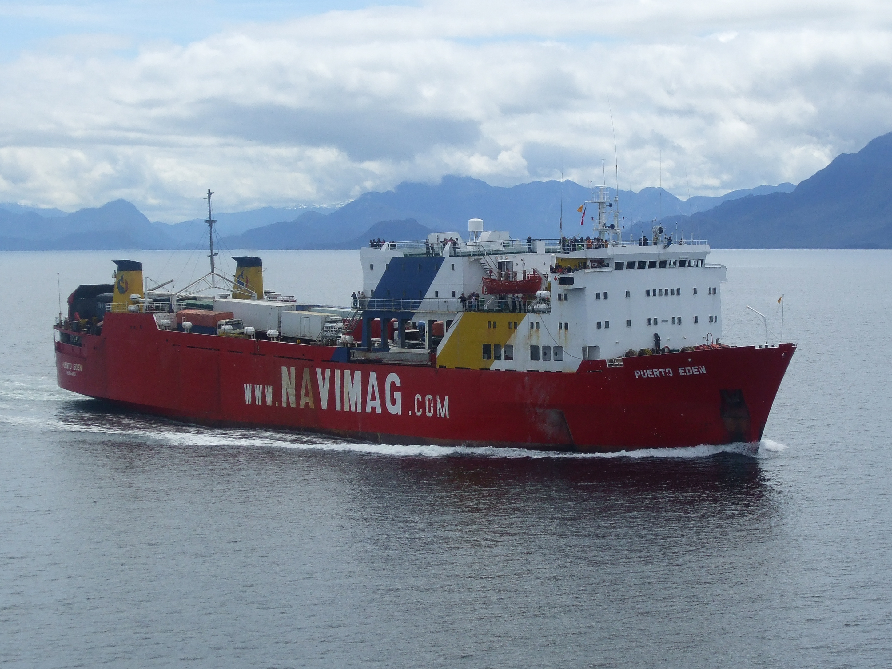 "MV Puert Eden" on opposite course, seen from "MV Evangelistas", sailing south into the Canal Moraleda. The sea area around the Golfo de Corcovado is the habitat of blue whales, which can be observed with some luck from the decks of the ferries.